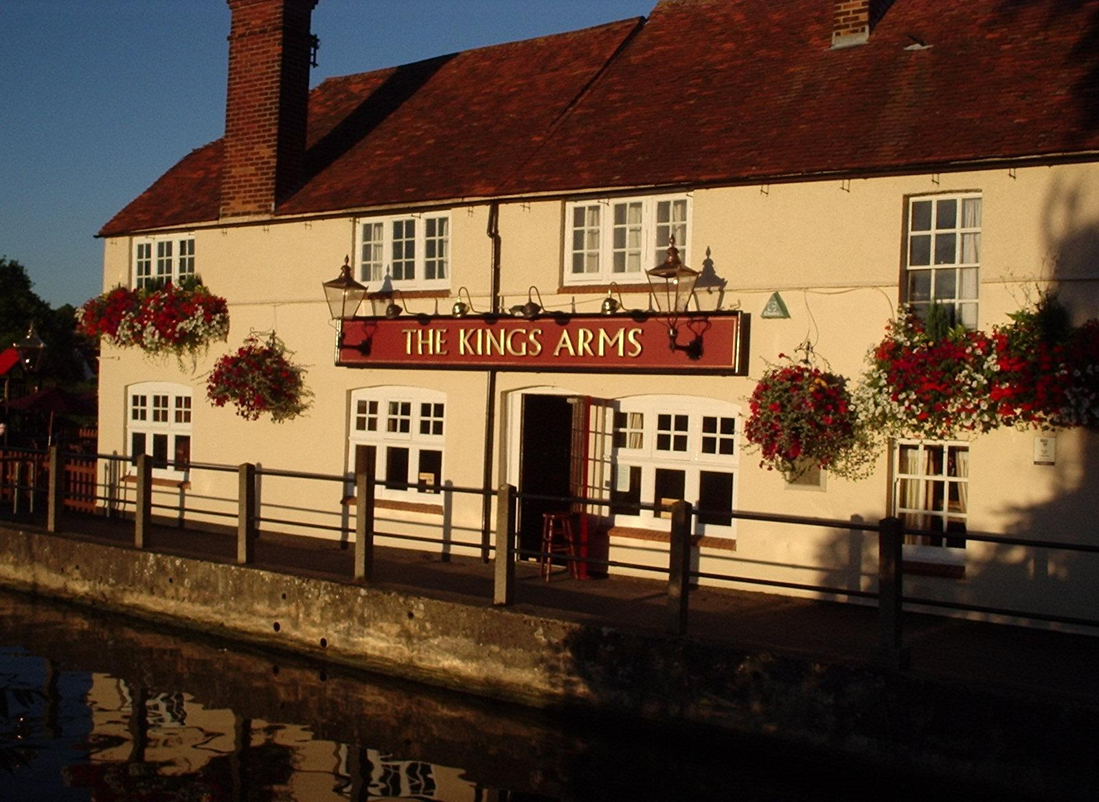 Kings Arms, Sandford-on-Thames, UK.